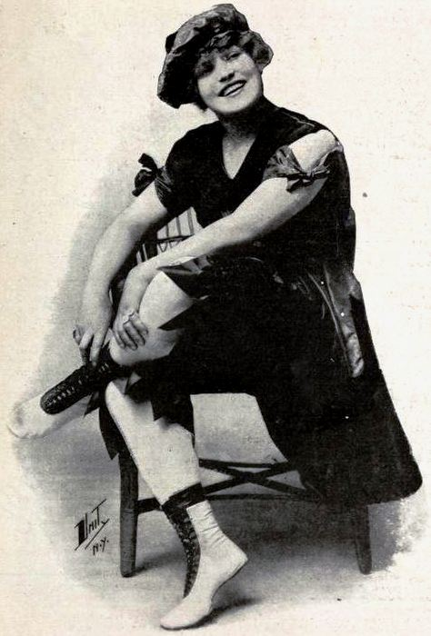 Actress Ida Schnall on page 137 of the September 1916 Motion Picture magazine.